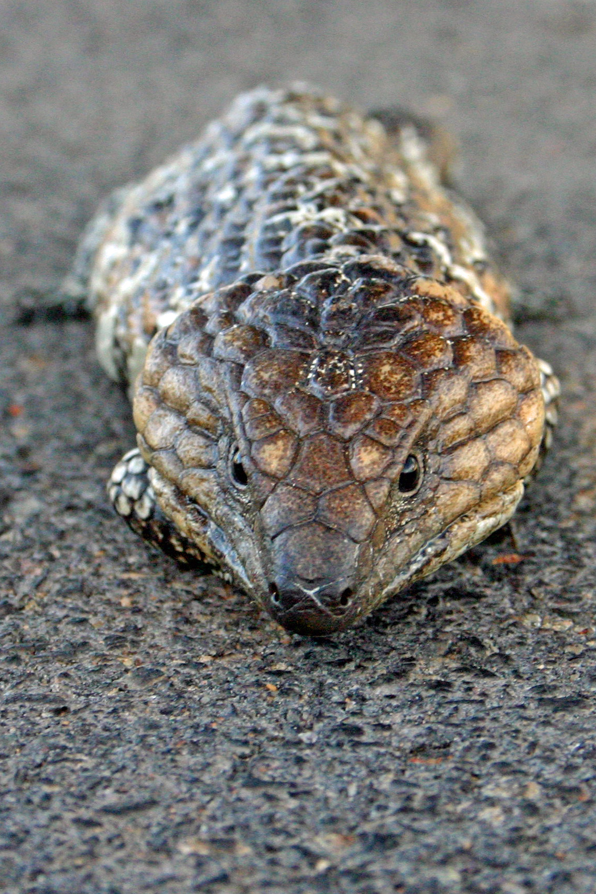 Shingle back